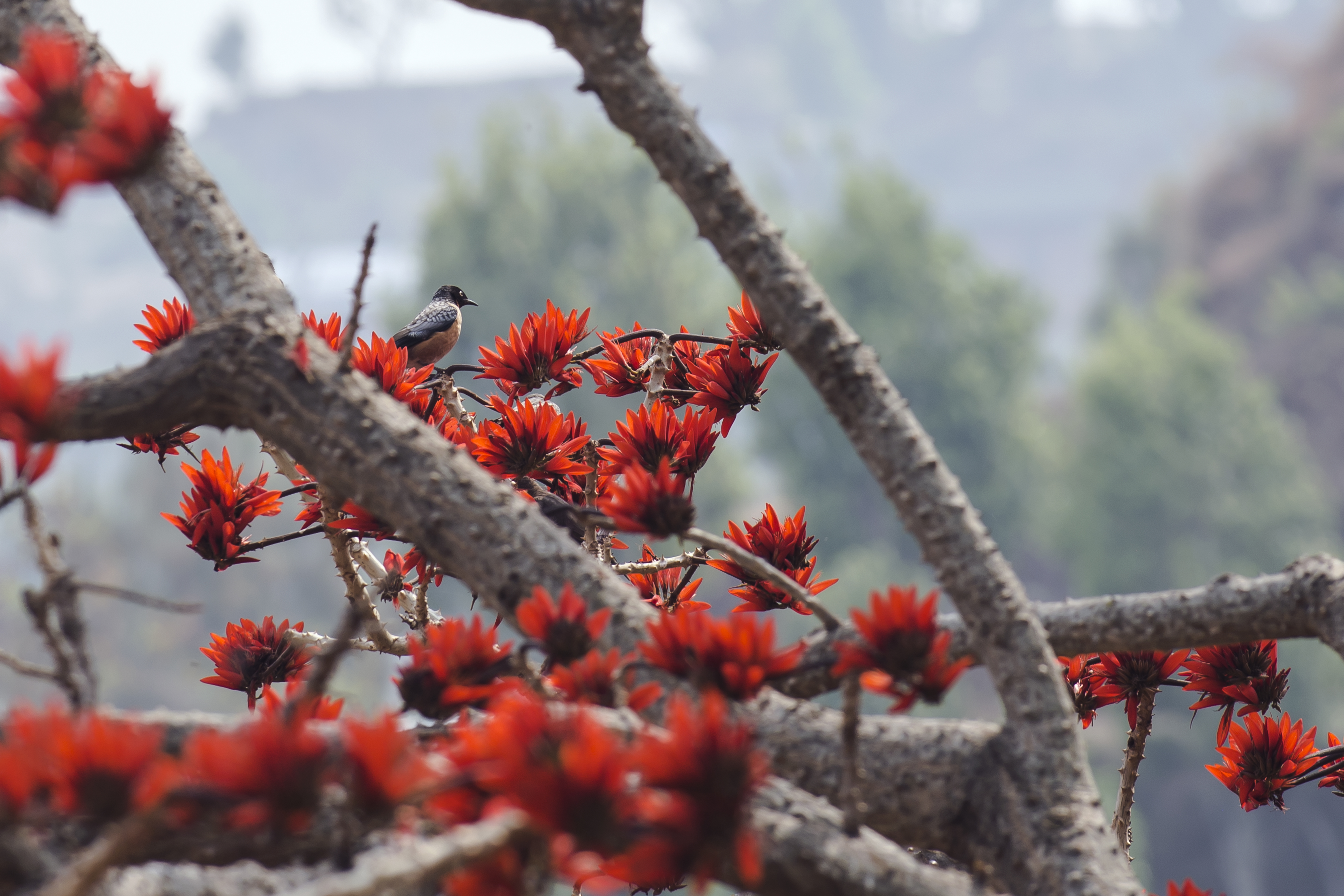 Spot Winged Starling looking something